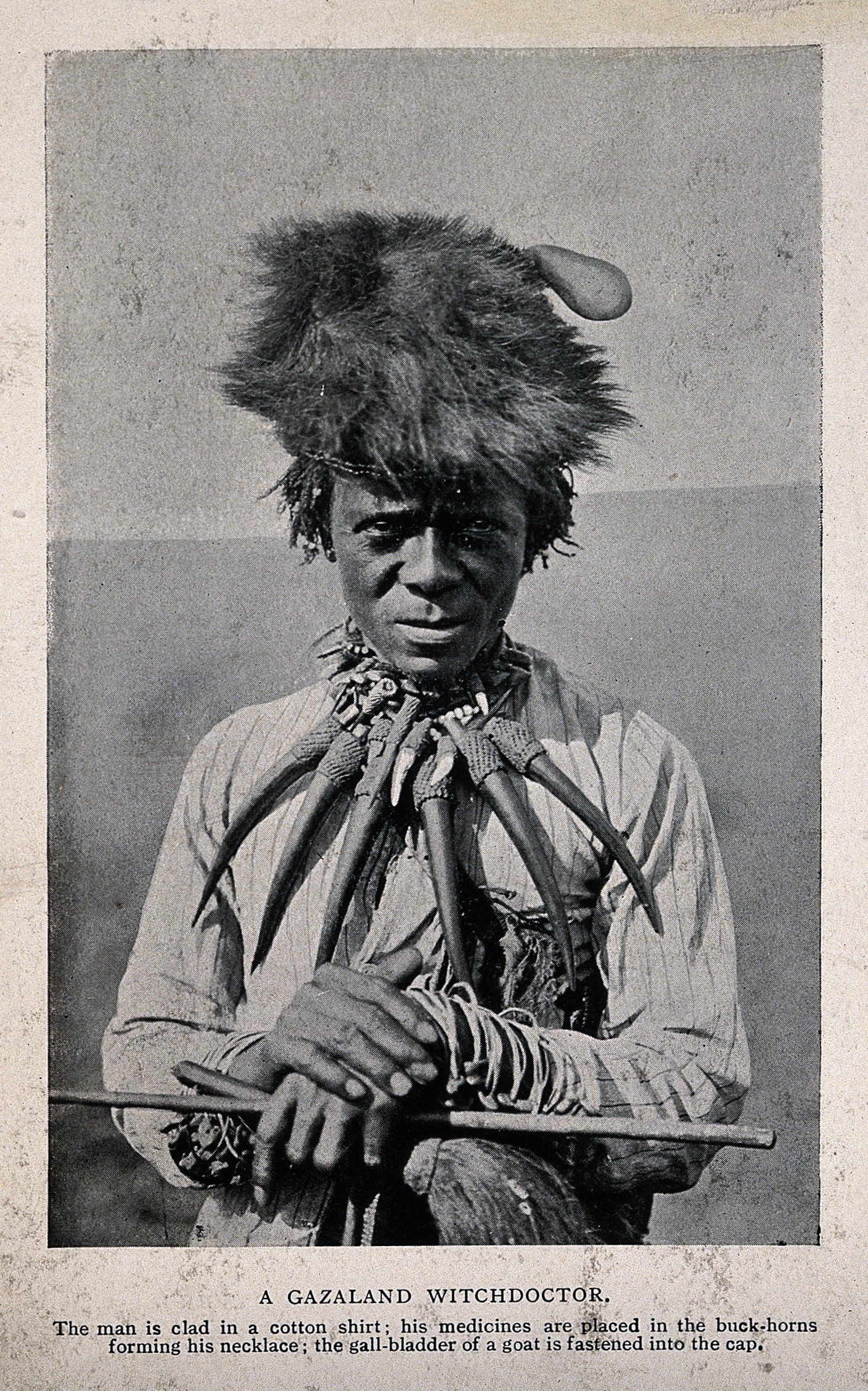 A Gazaland medicine man or shaman, equatorial Africa. Halftone. Iconographic Collections